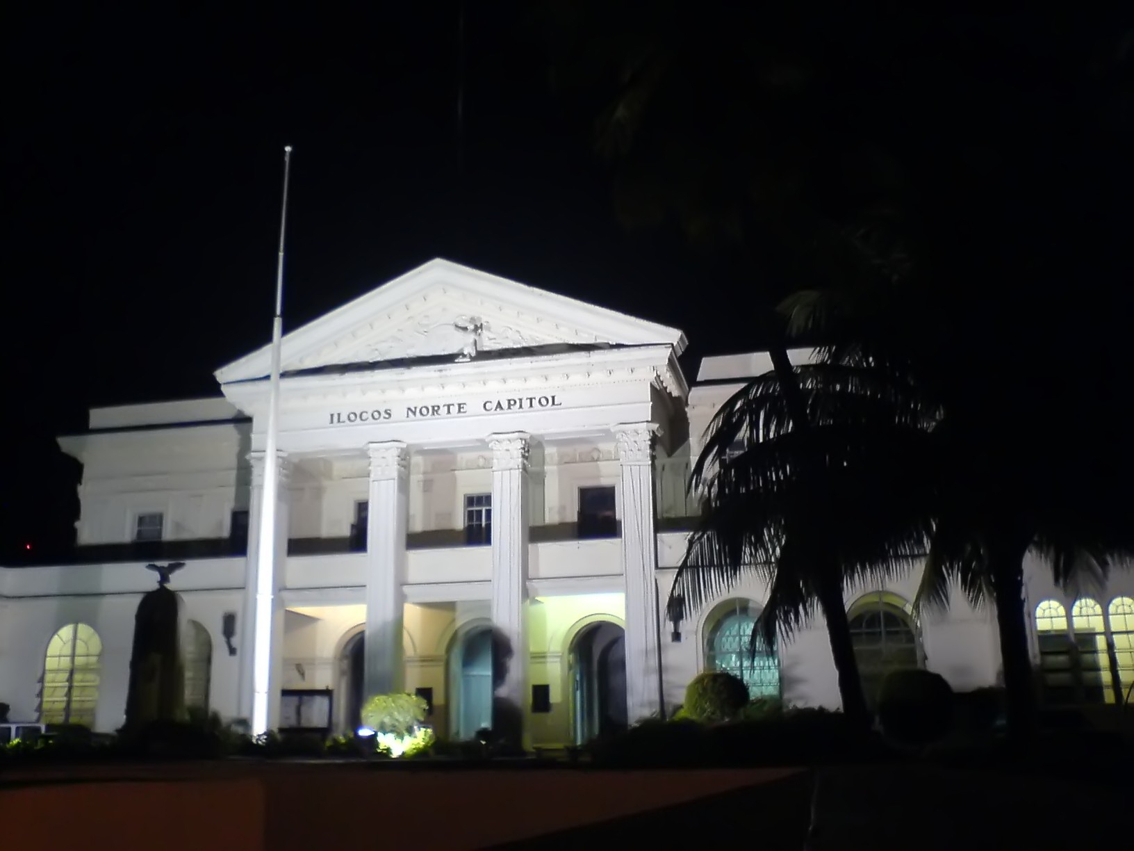 Photos taken during my recent visit to Northern Luzon. The trip is chronicled here: [1].